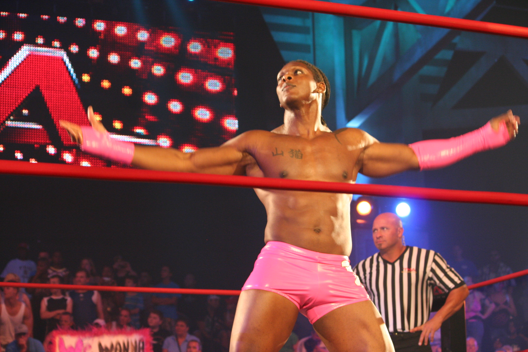 Professional wrestler Orlando Jordan at a TNA Impact! taping